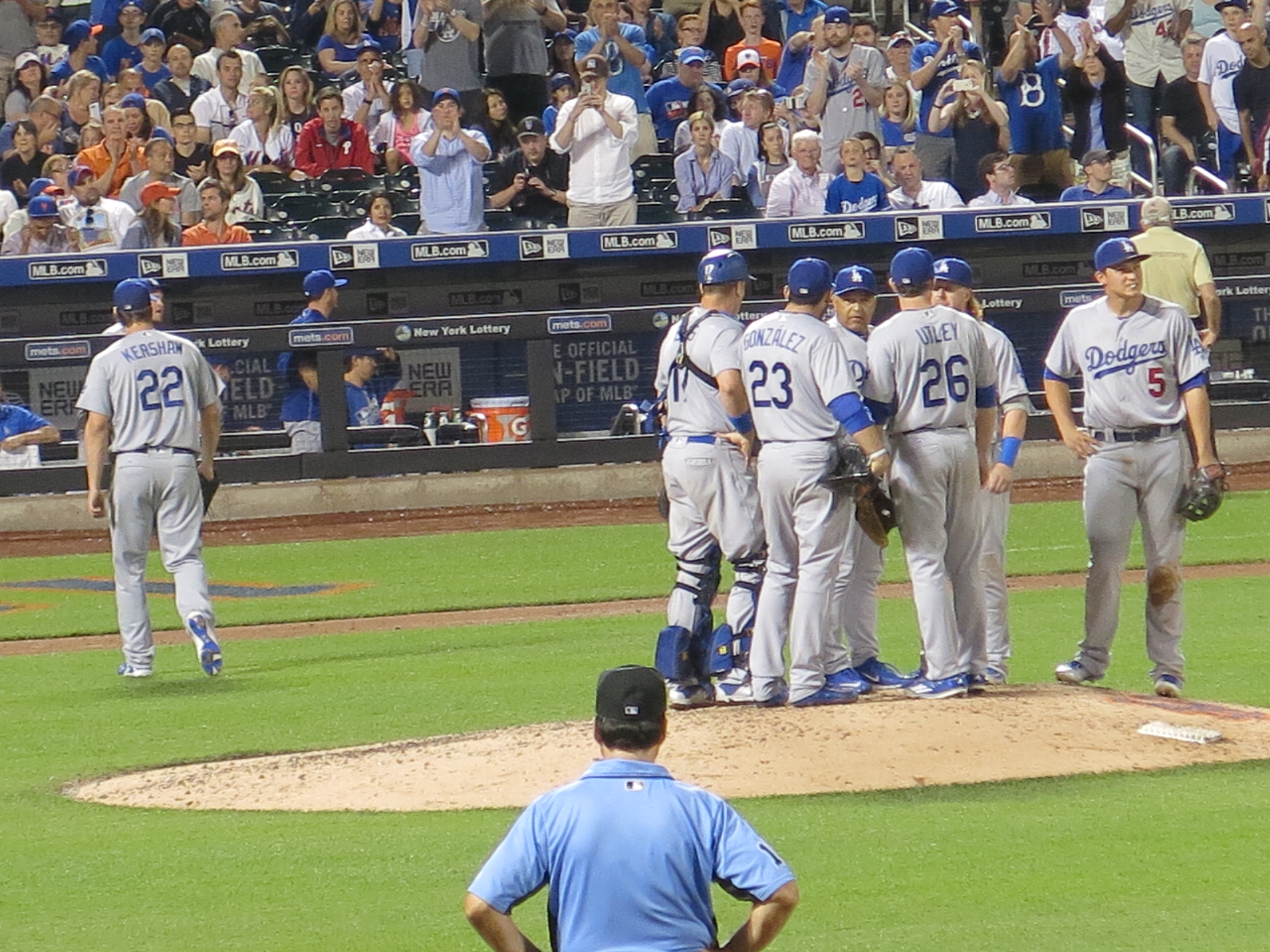 A mound meeting of the Los Angeles Dodgers, May 29, 2016.